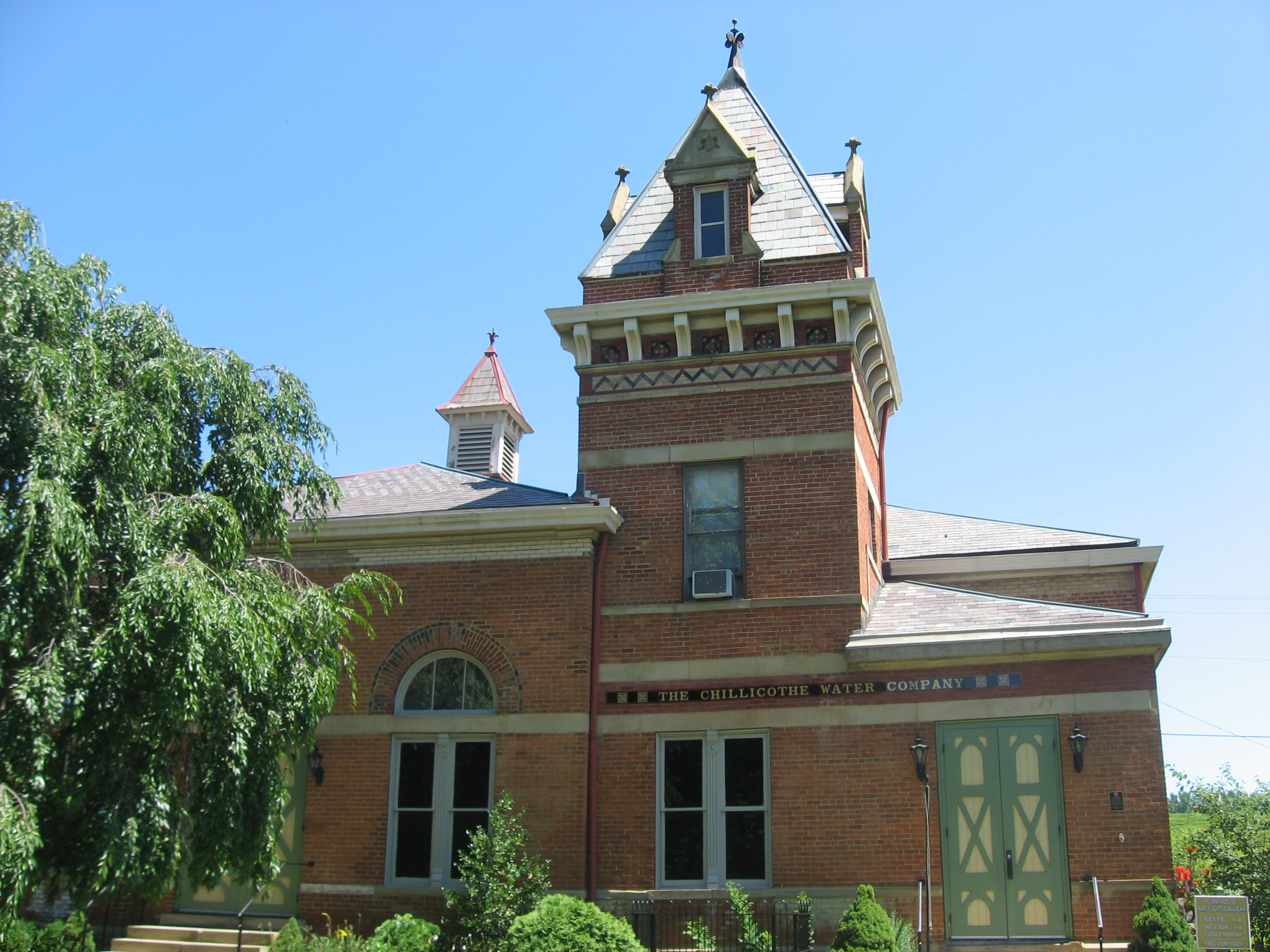 Front of the former Chillicothe Water and Power Company Pumping Station, located on Enderlin Circle on the northern side of Chillicothe, Ohio, United States. Built in 1881 and since converted into an art gallery, it is listed on the National Register of Historic Places.